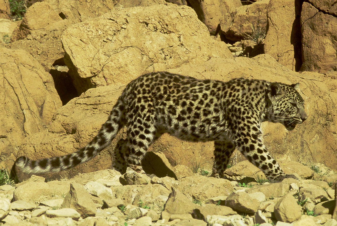 Judean Desert leopard - Thmt morning walk on a cliff copies at Ein Gedi 1985